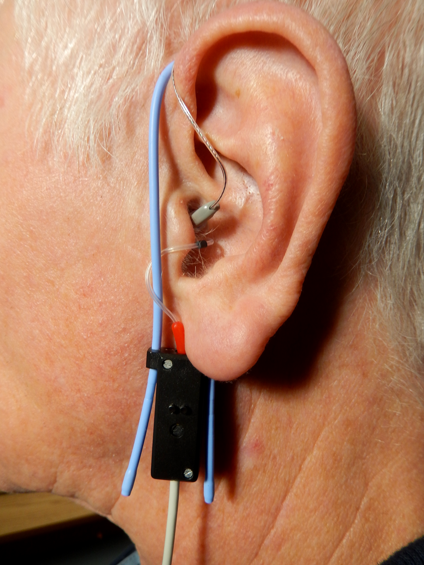 Real ear measurement being performed with probe tube inserted in ear canal.